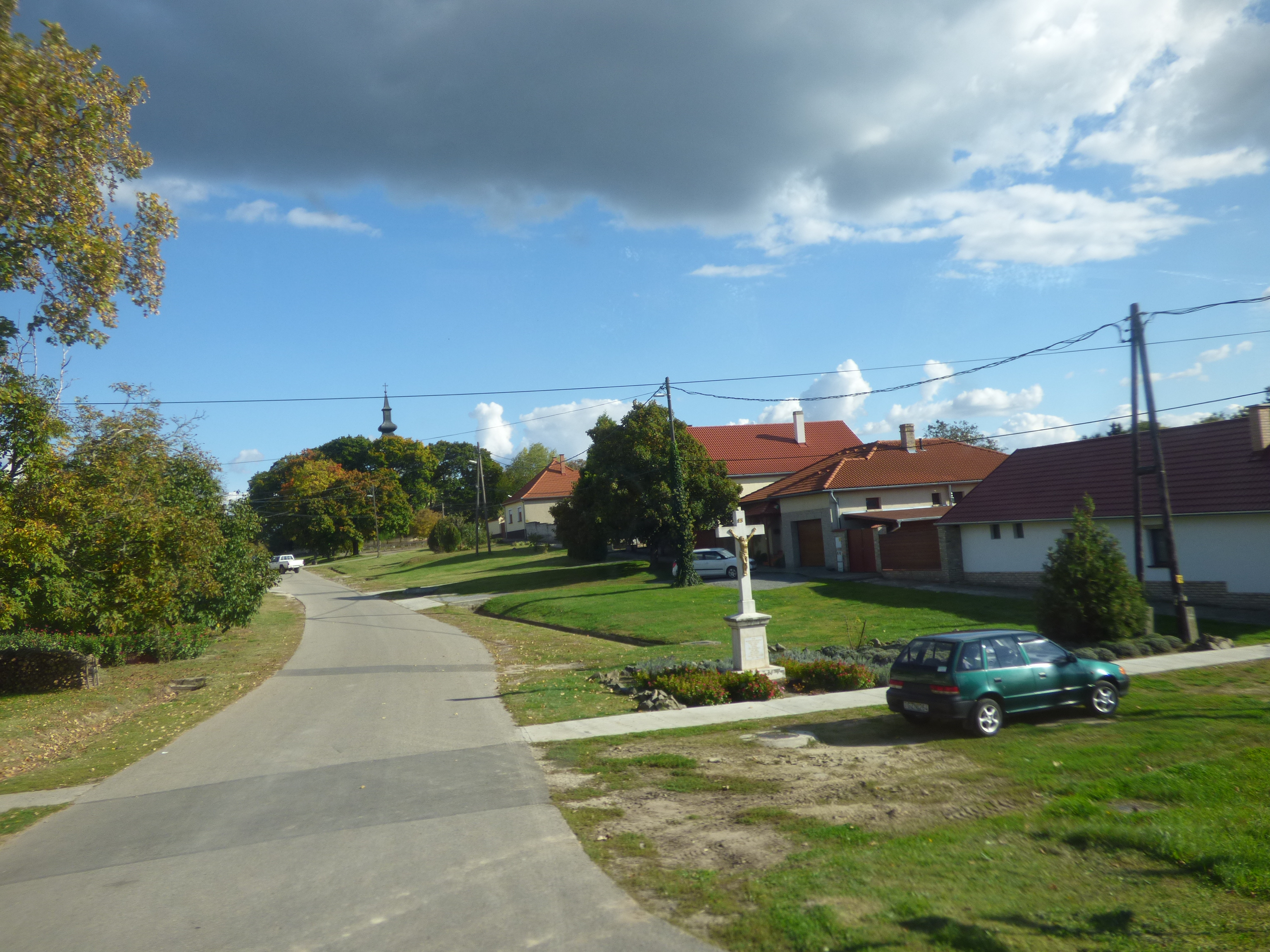 Sükösdi utcakép